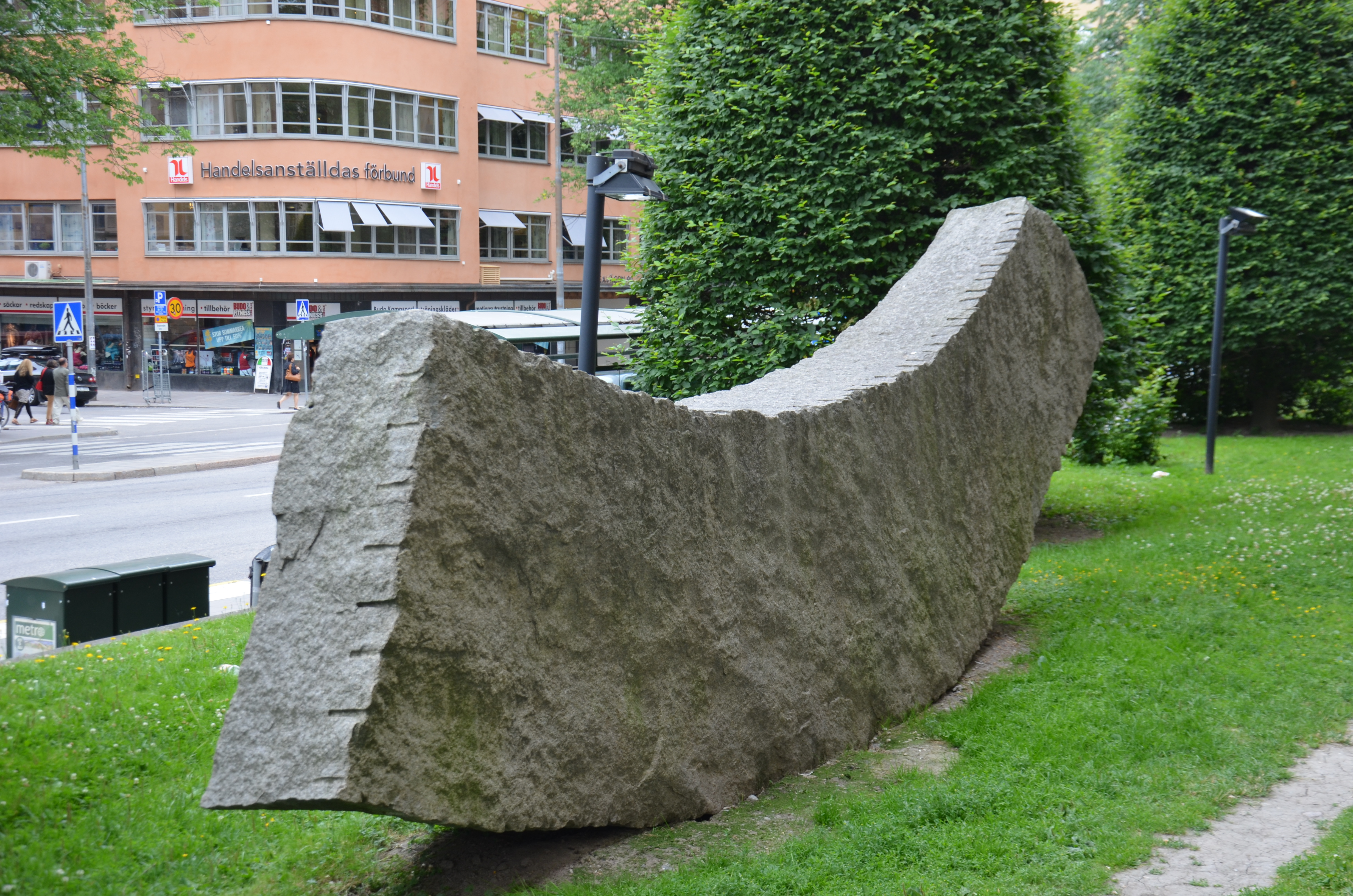 Claes Hake, verk i granit utanför Handelshögskolan i Stockholm